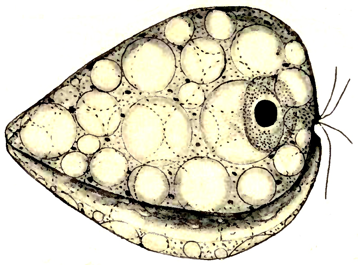 Laterosulcal view, of Collodictyon showing vacuolated cytoplasm, sulcus, vesicular nucleus with karyosome and peripheral chromatin, blepharoplast of two basal granules surrounded by granular archoplasm, four flagella, and rhizoplast.